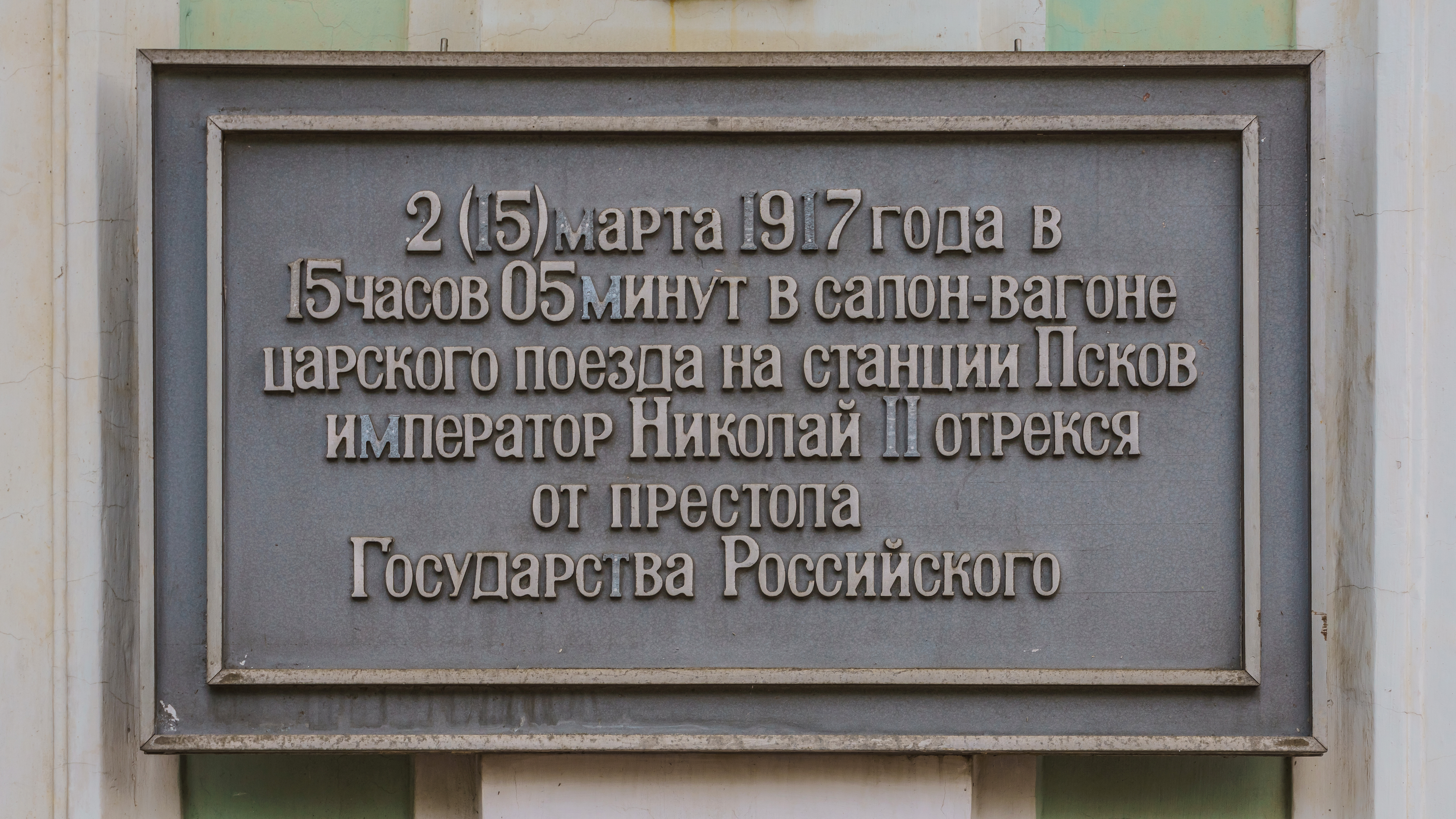 Railway station (track side) in Pskov, Russia